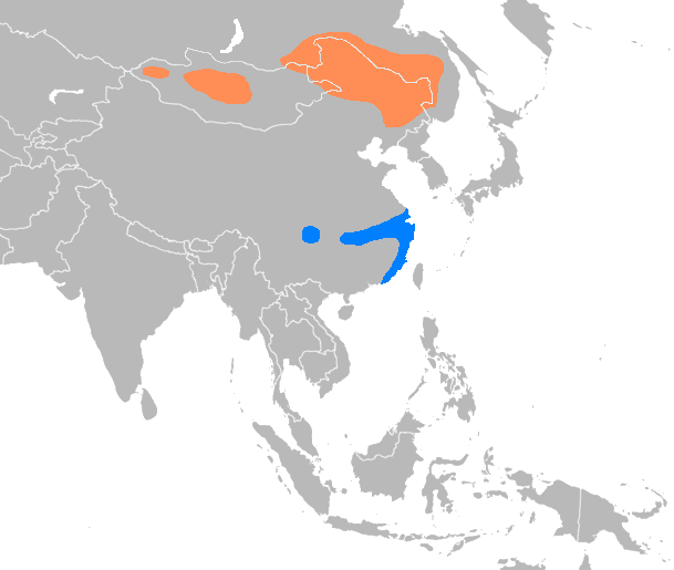 Anser cygnoides distribution: Orange: breeding range Blue: winter range References: MacKinnon & Phillipps (2000). A Field Guide to the Birds of China. Madge & Burn (1999). Wildfowl. del Hoyo et al., eds. (1992). Handbook of the Birds of the World 1.